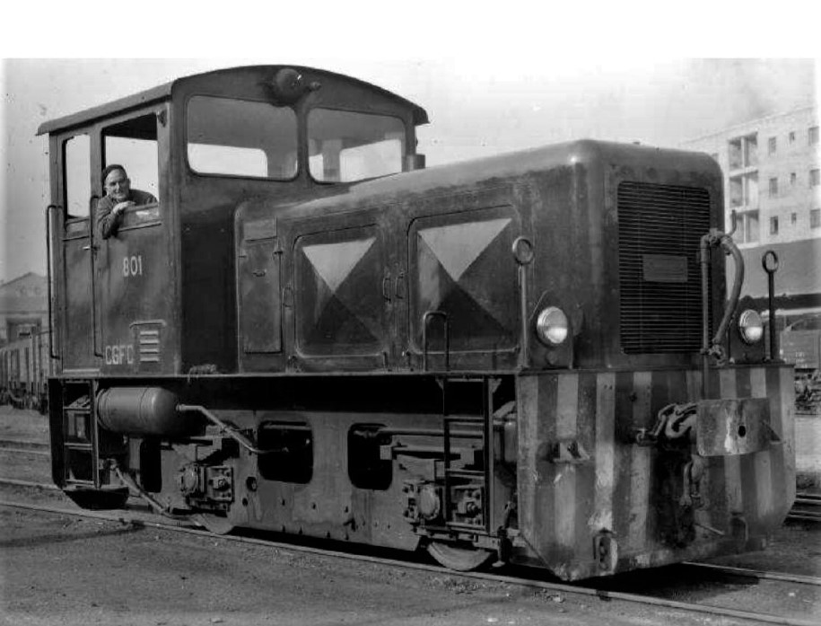 Diesel shunter 801 of the Compañía General de Ferrocarriles Catalanes, photographed in the mid-sixties.